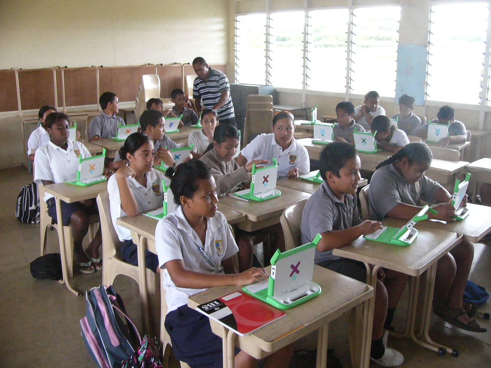 First opening of laptops